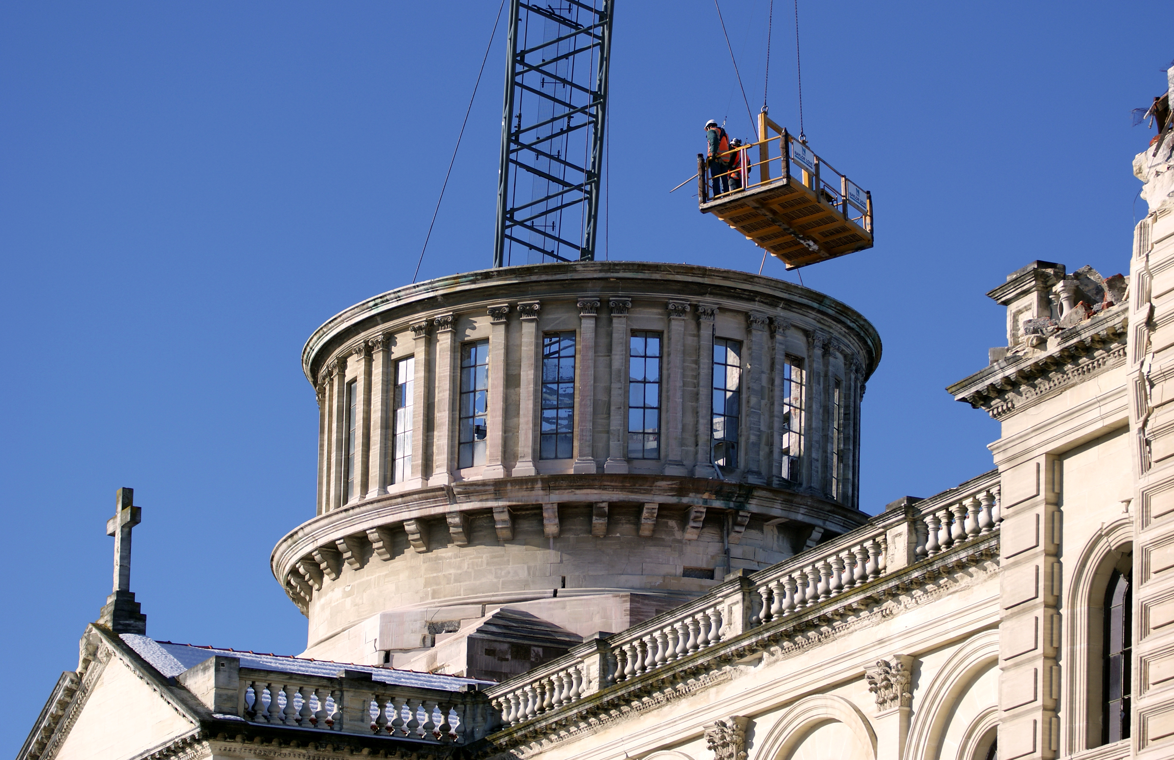 The February 2011 Christchurch earthquake was a powerful natural event that severely damaged New Zealand's second-largest city, killing 185 people in one of the nation's deadliest peacetime disasters. The magnitude 6.3 (ML) earthquake[1] struck the Canterbury region in New Zealand's South Island at 12:51 pm on Tuesday, 22 February 2011 local time (23:51 21 February UTC).[1][9] The earthquake was centred 2 kilometres (1.2 mi) west of the port town of Lyttelton, and 10 kilometres (6 mi) south-east of the centre of Christchurch, New Zealand's second-most populous city